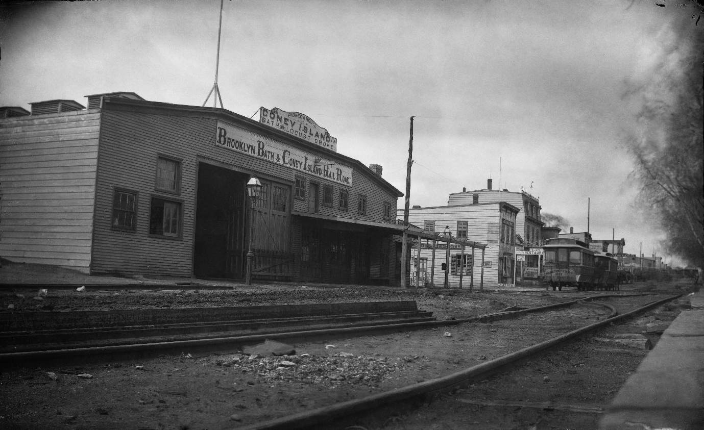 George Bradford Brainerd (American, 1845-1887). Coney Island Railroad Station, late 1870s. Wet-collodion negative, 5 x 8 in. (12.7 x 20.3 cm). Prints, Drawings and Photographs. Brooklyn Museum/Brooklyn Public Library, Brooklyn Collection, 1996.164.2-277. (1996.164.2-277_glass_SL1.jpg) Help us geotag this photograph so we can represent Brooklyn on Historypin. If you can figure out where this image should be placed: Use Suggestify to suggest a location for it. [or] Leave a comment on Flickr and link to the location on Google Maps. [or] Tweet @brooklynmuseum with the Flickr image URL, the location link to Google Maps and use the #mapBK hashtag. More about #mapBK